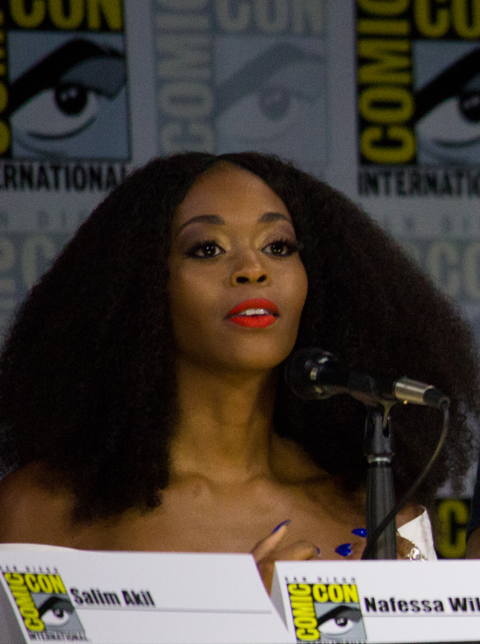 Nafessa Williams, Cress Williams and China Anne McClain speaking at the 2017 San Diego Comic Con International, for "Black Lightning", at the San Diego Convention Center in San Diego, California.